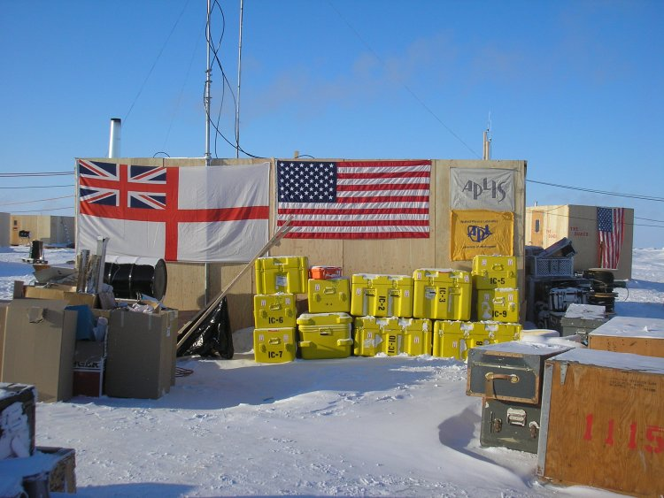 Picture of flags hung at the Applied Physics Laboratory Ice Station